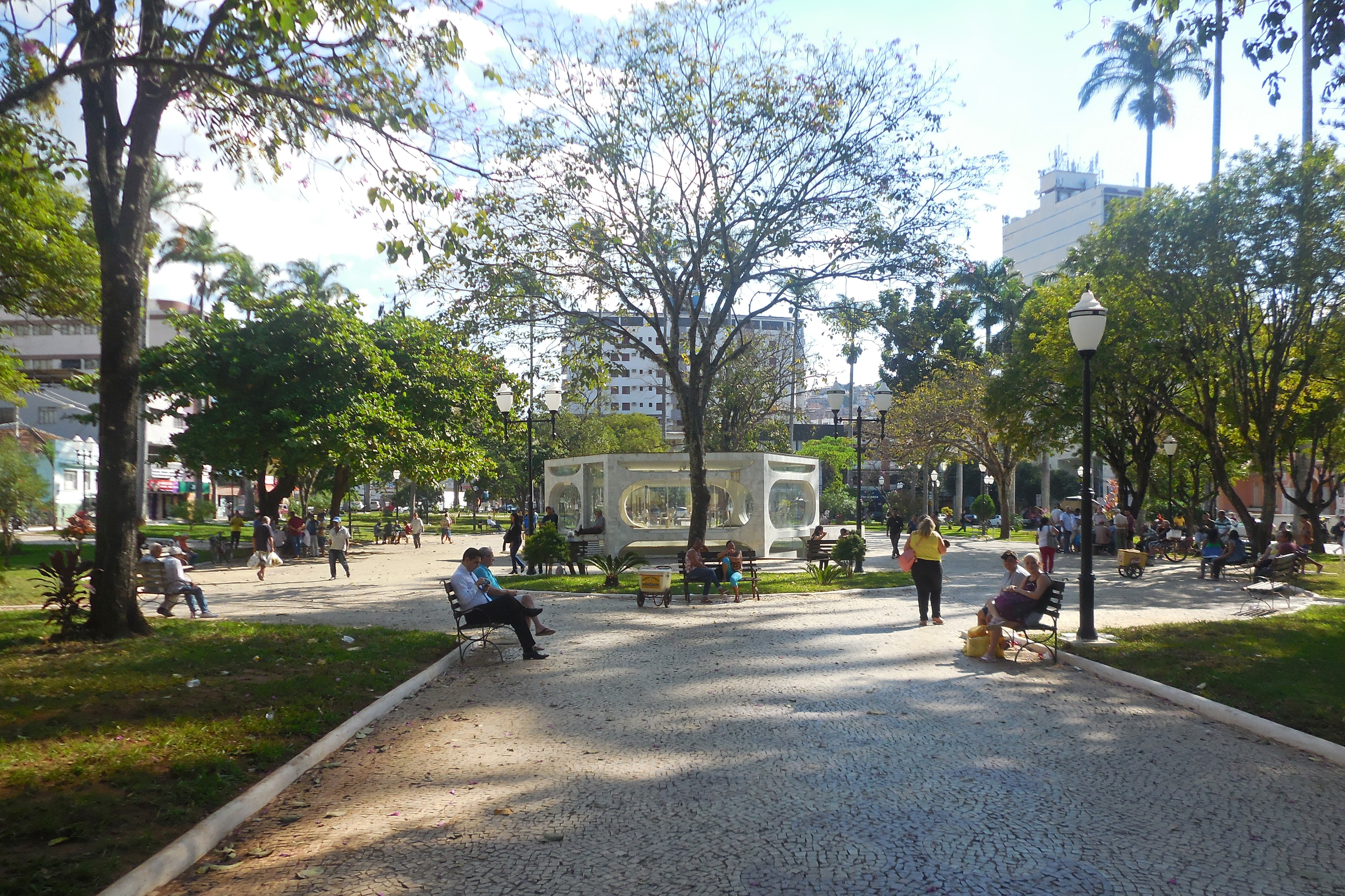 Interior of the Cesário Alvim Square, in Caratinga, Minas Gerais, Brazil.